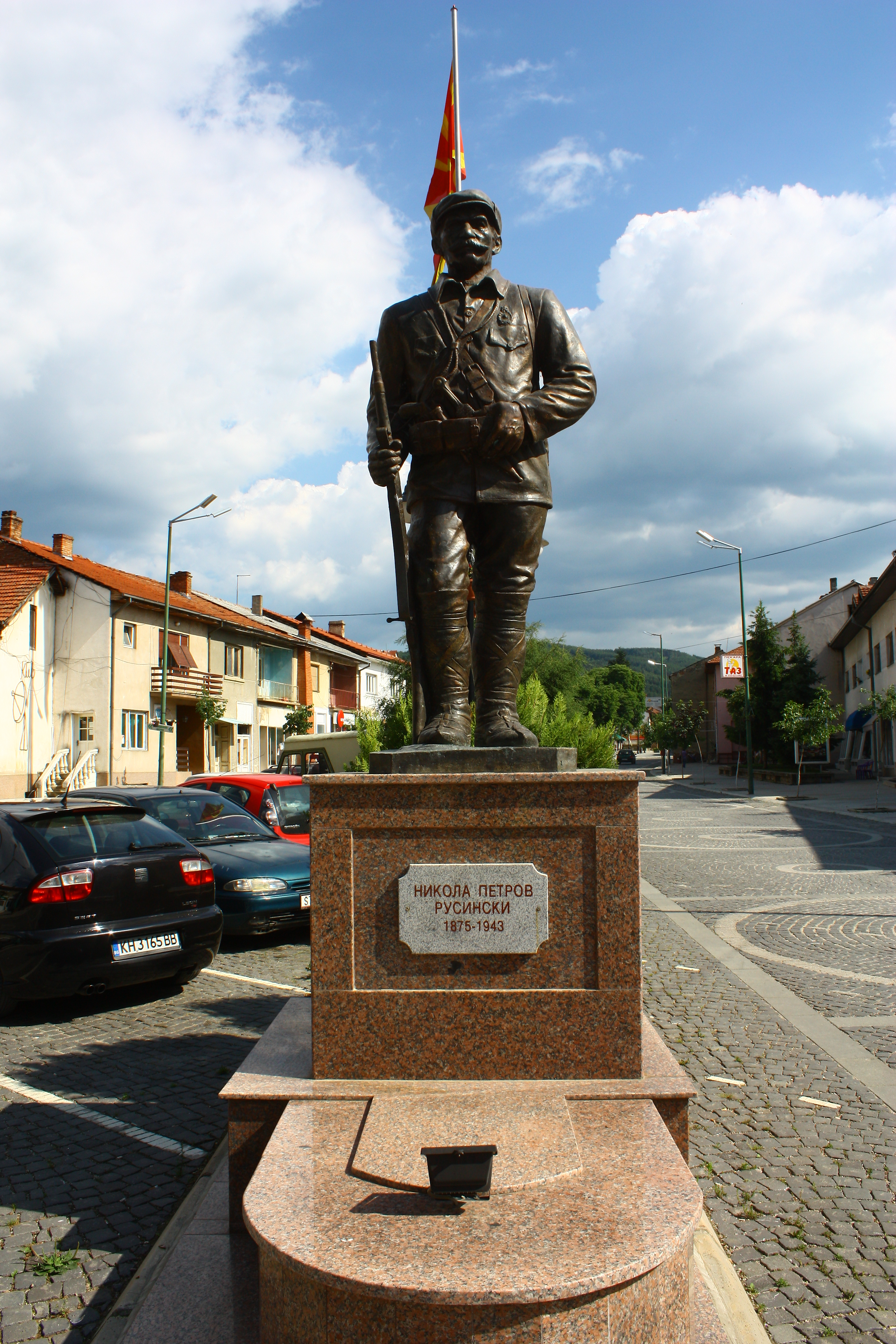 Nikola Rusinski Monument in Berovo) , Macedonia This image is uploaded as part of the picture contest Wiki Loves Cultural Heritage in Macedonia 2013. English | македонски | +/−